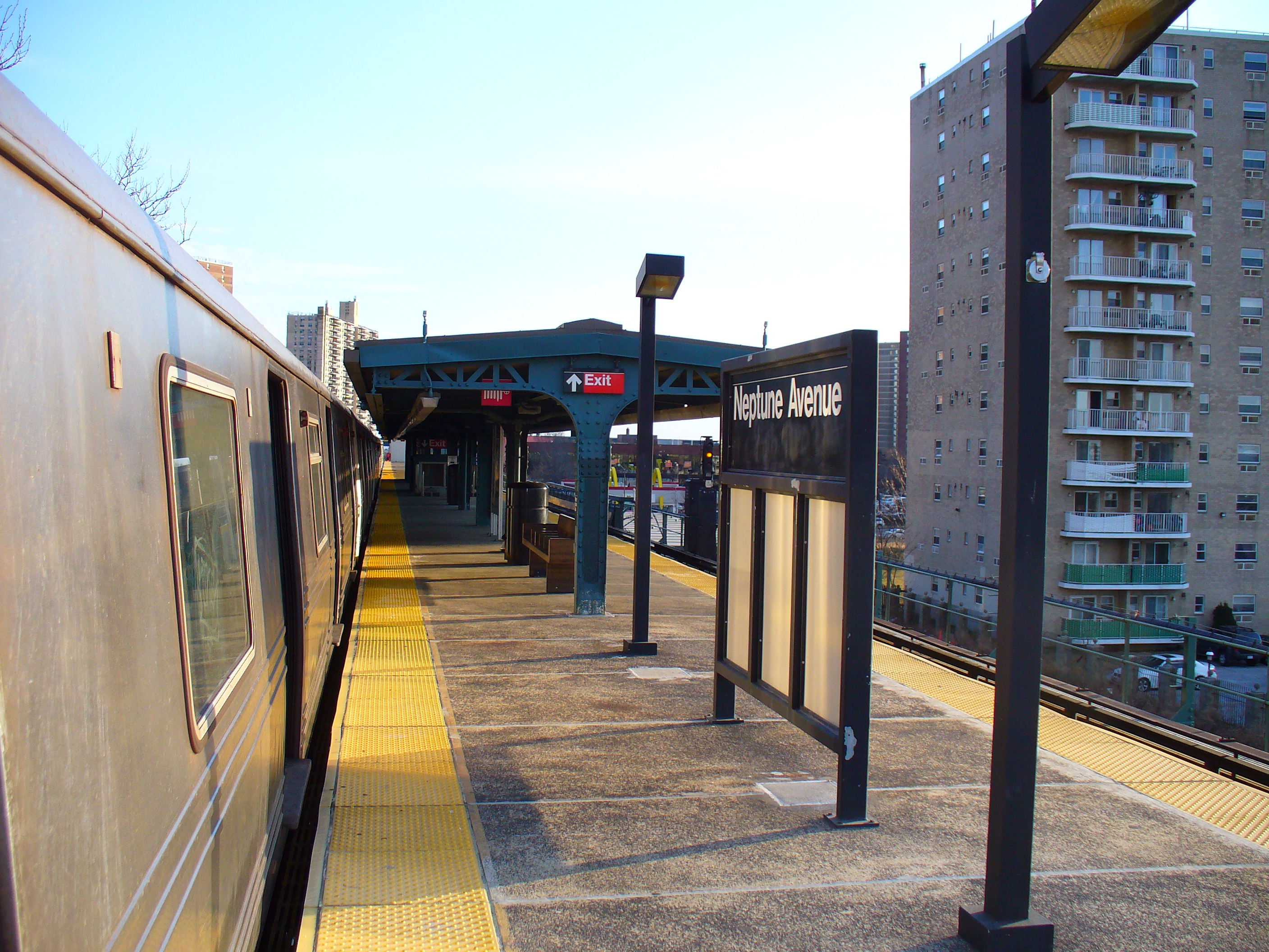 Neptune Avenue F Line NYC Subway Station by David Shankbone